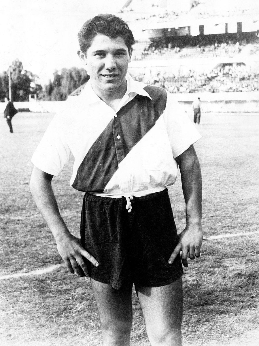 River Plate player Omar Sivori in 1954.